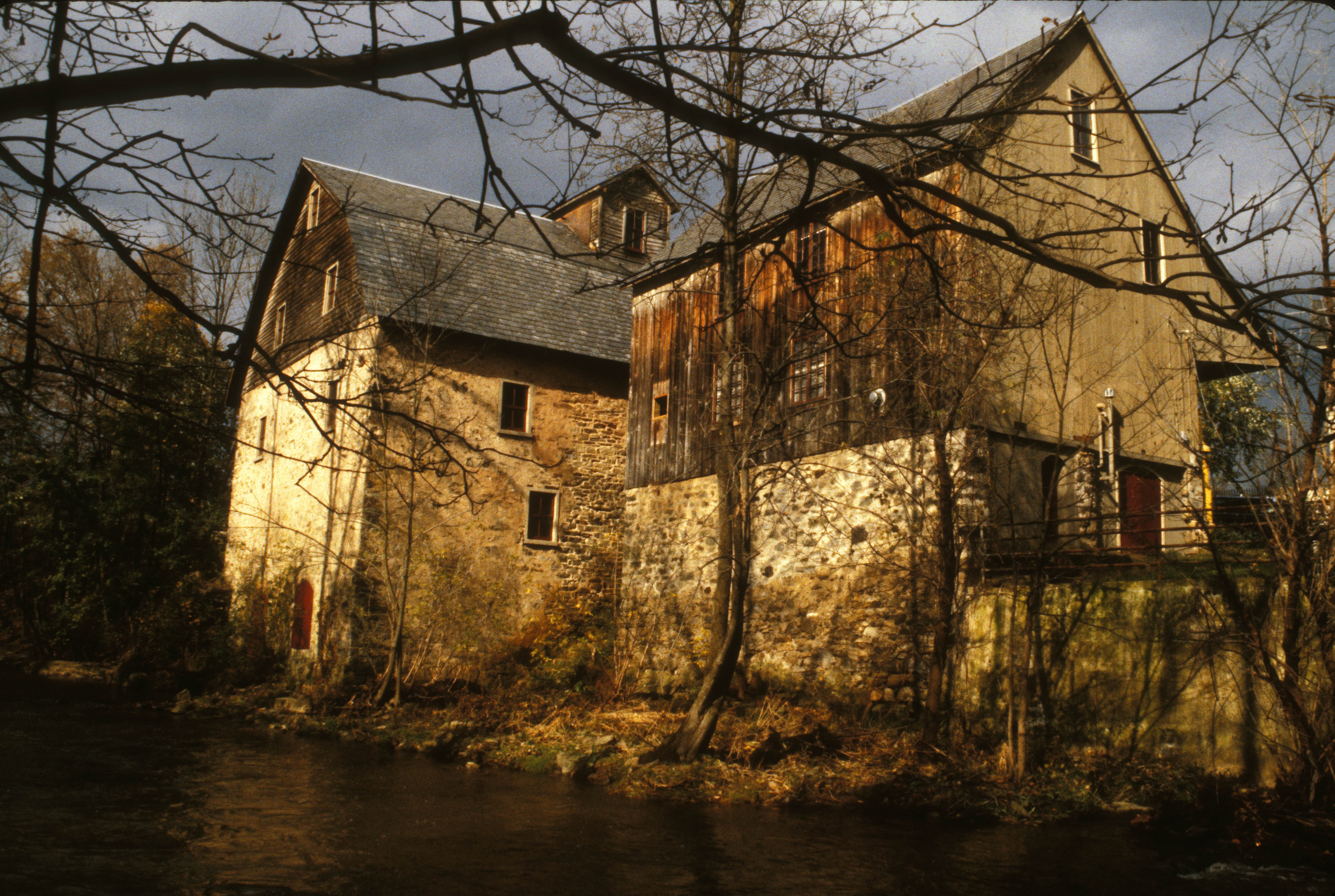 LOCATED ON SAUCON CREEK NEAR HELLERTOWN. A LARGE GRIST MILL AND SEVERAL HOUSES REMAIN OF NUMEROUS GRIST MILLS THAT OPERATED IN THE LEHIGH VALLEY; BUILT IN THE 19TH C. THIS PICTURE WAS TAKEN IN THE LATE AFTERNOON FOLLOWING A THUNDERSTORM